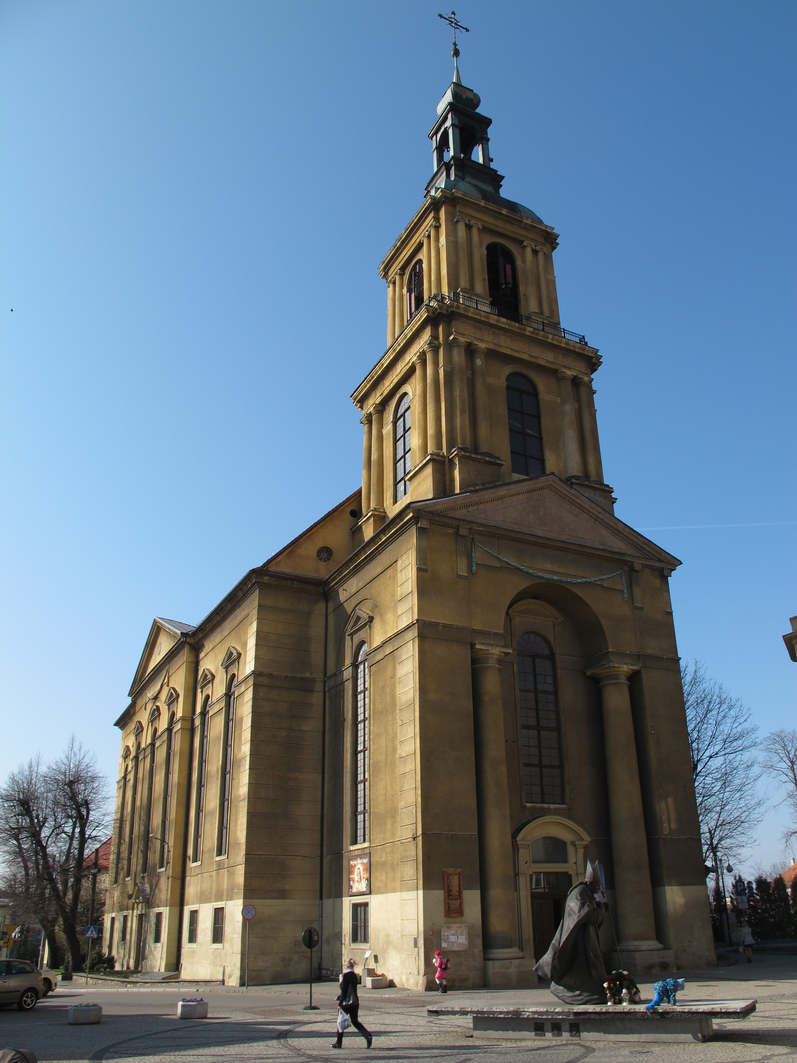 Dzierżoniów - church of St. Mary the Mother of the Church